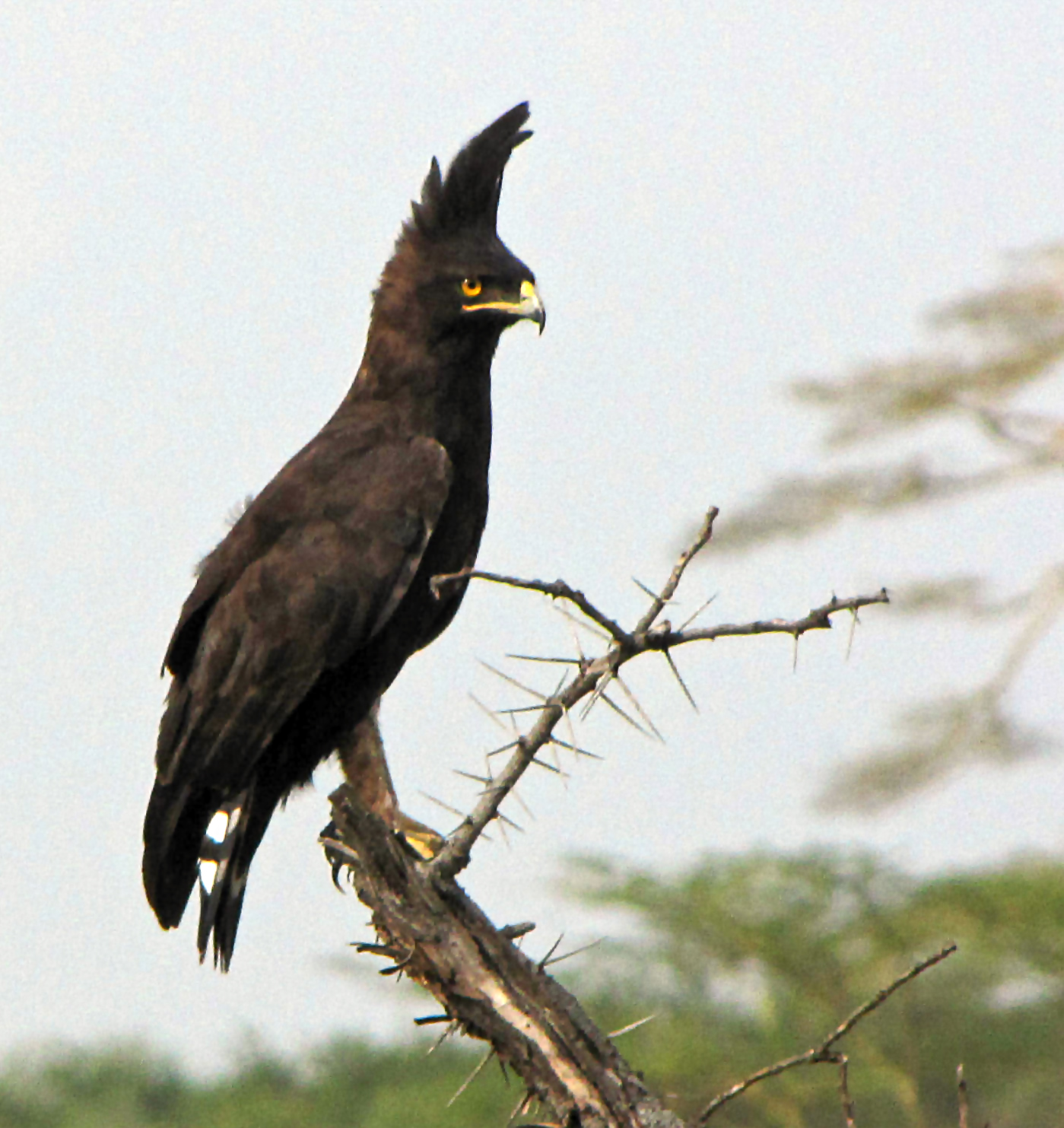 Long-crested Eagle (Lophaetus occipitalis), Serengeti National Park, Tanzania